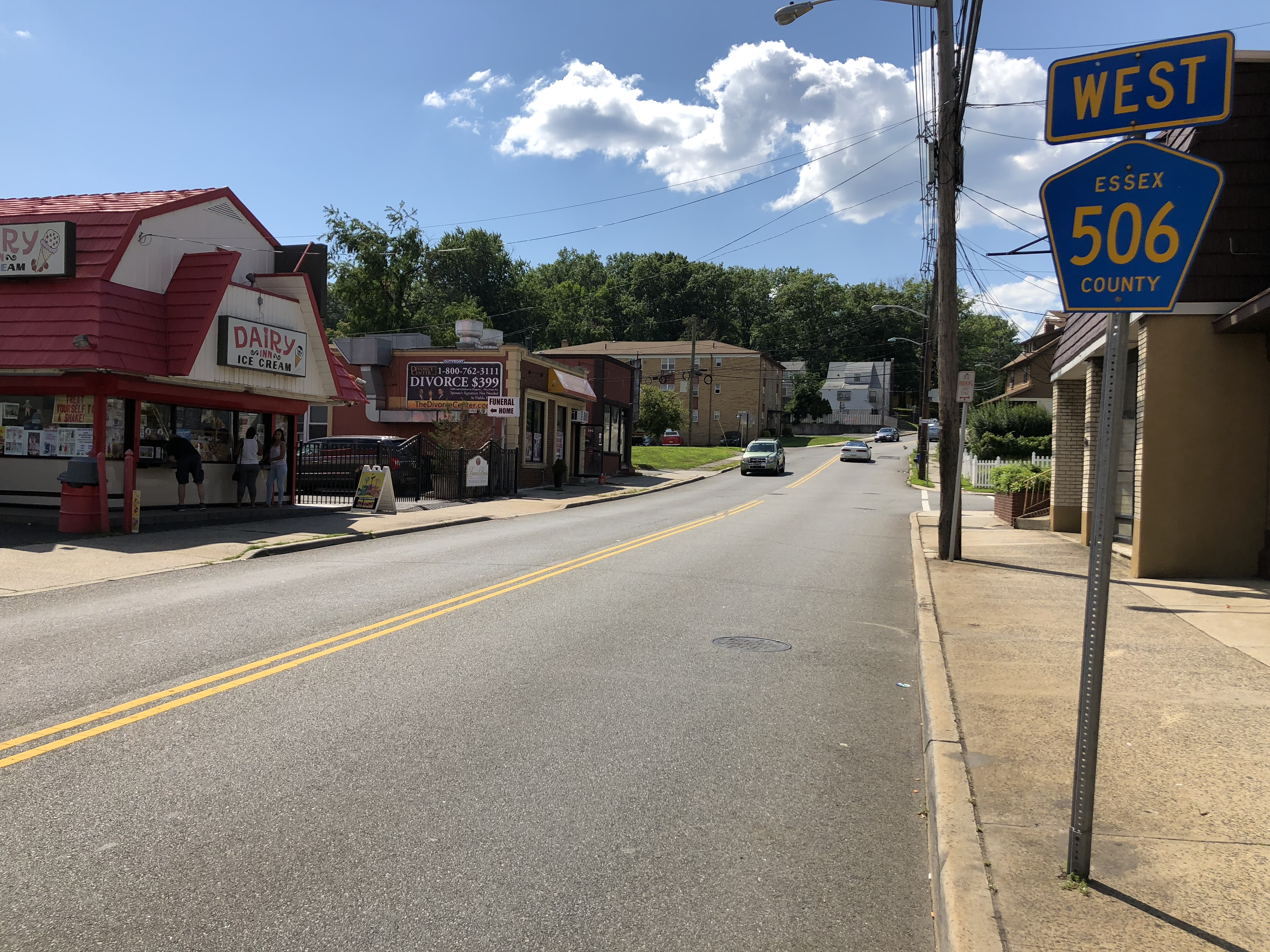 View west along Essex County Route 506 (Belleville Avenue) just west of Essex County Route 647 (Mount Prospect Avenue/Union Avenue) in Belleville Township, Essex County, New Jersey